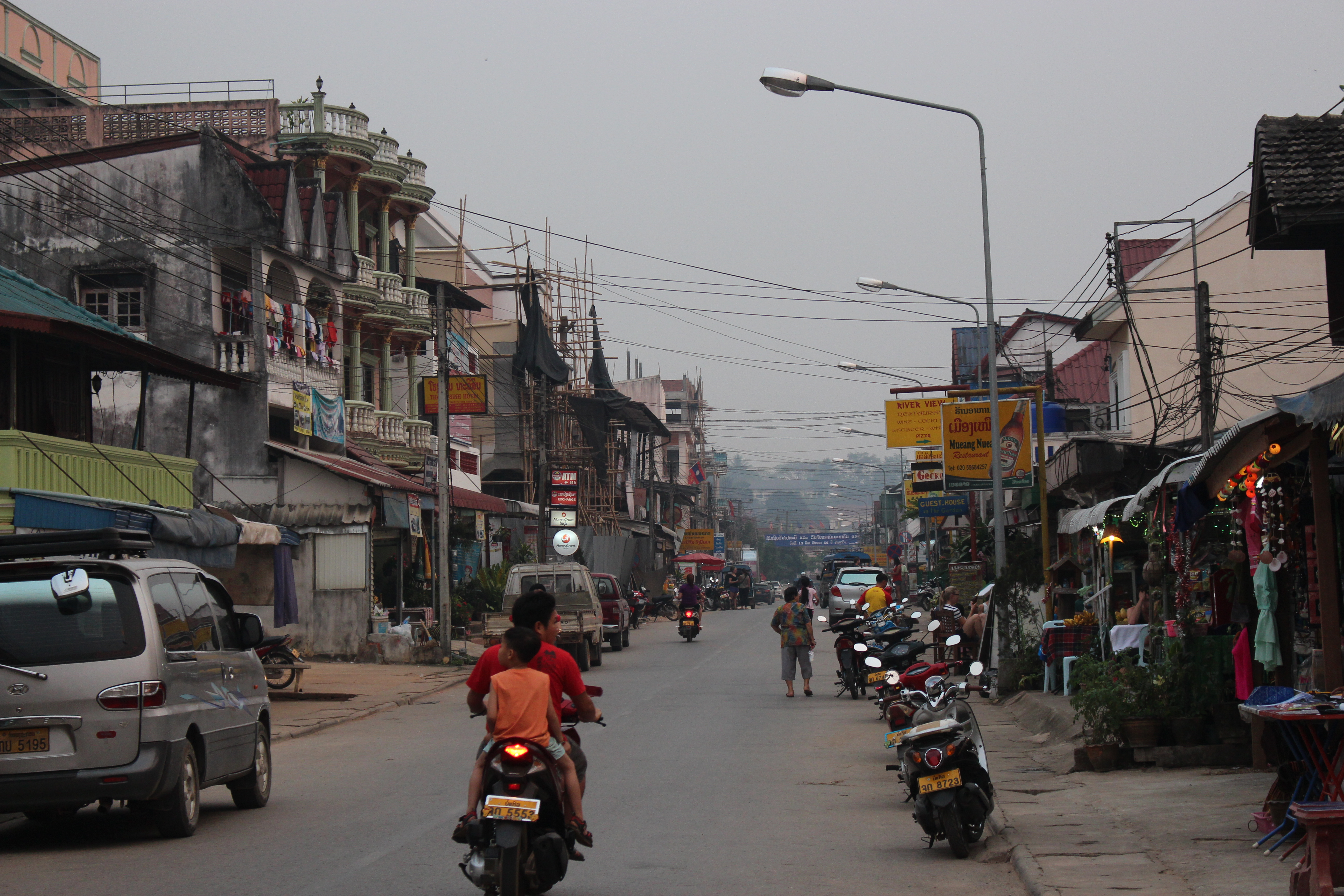 Ban Houayxay in March 2015.